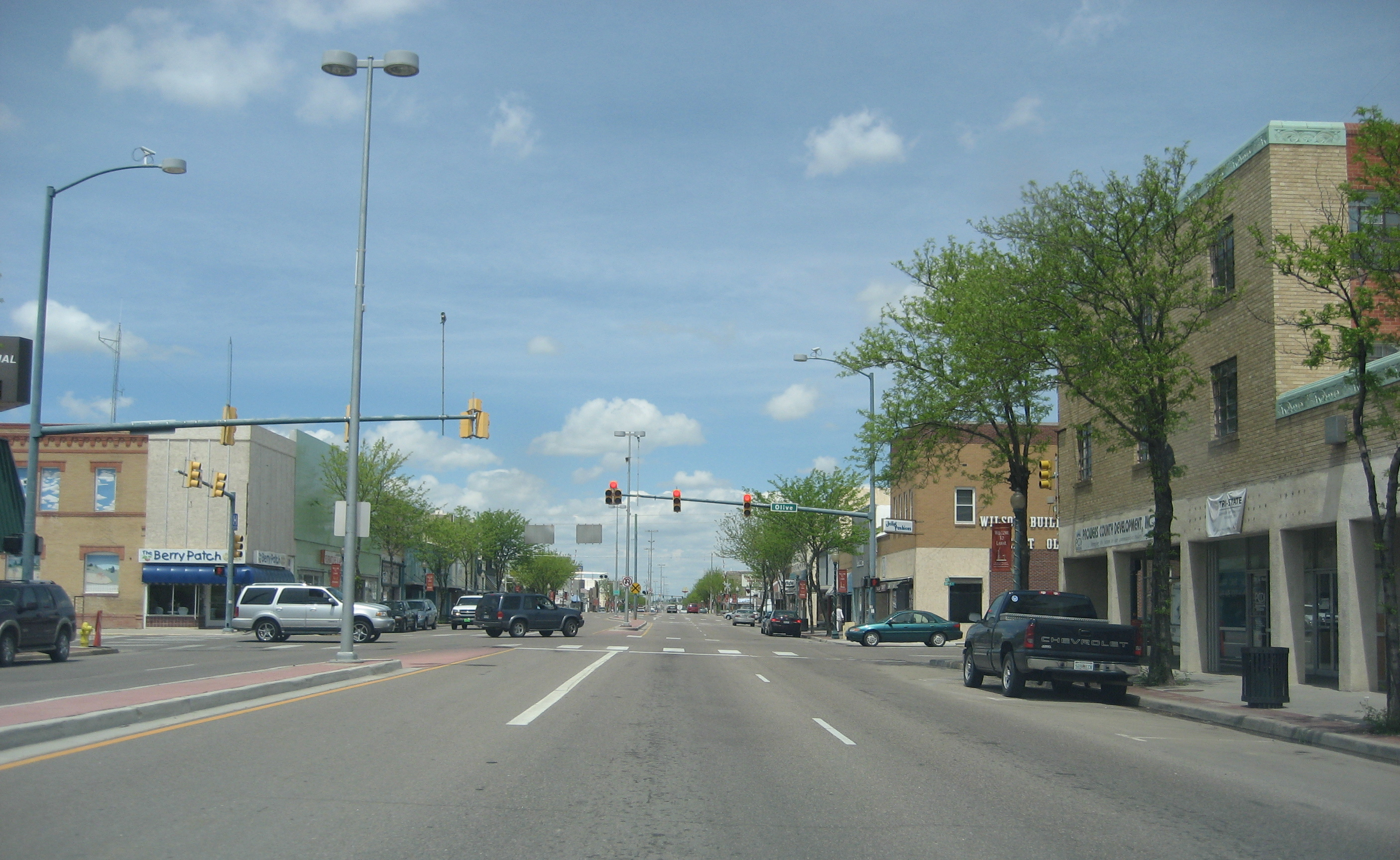 Author: John Kahrs